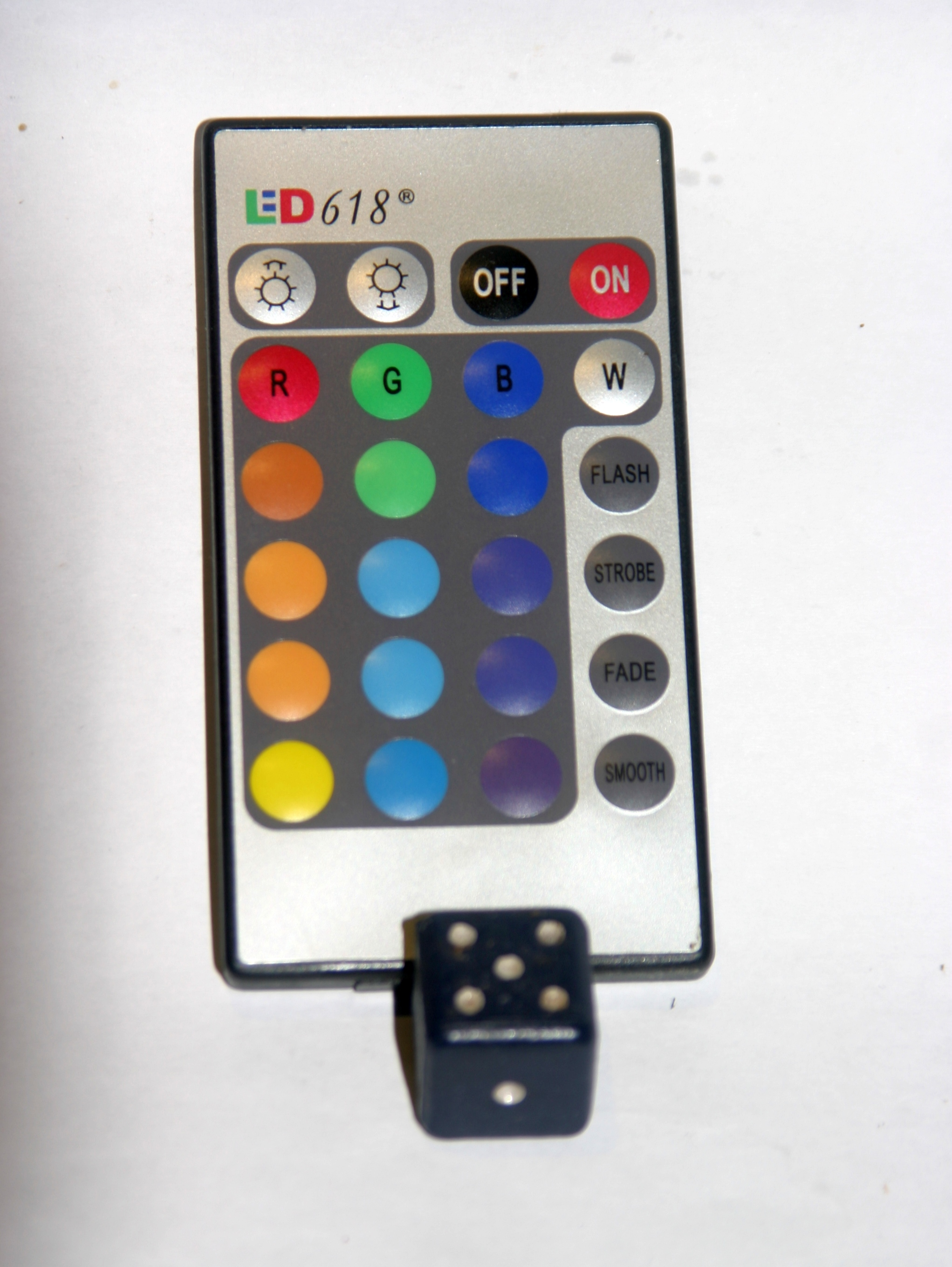 24 key remote control for multi-functional LED dimmer.